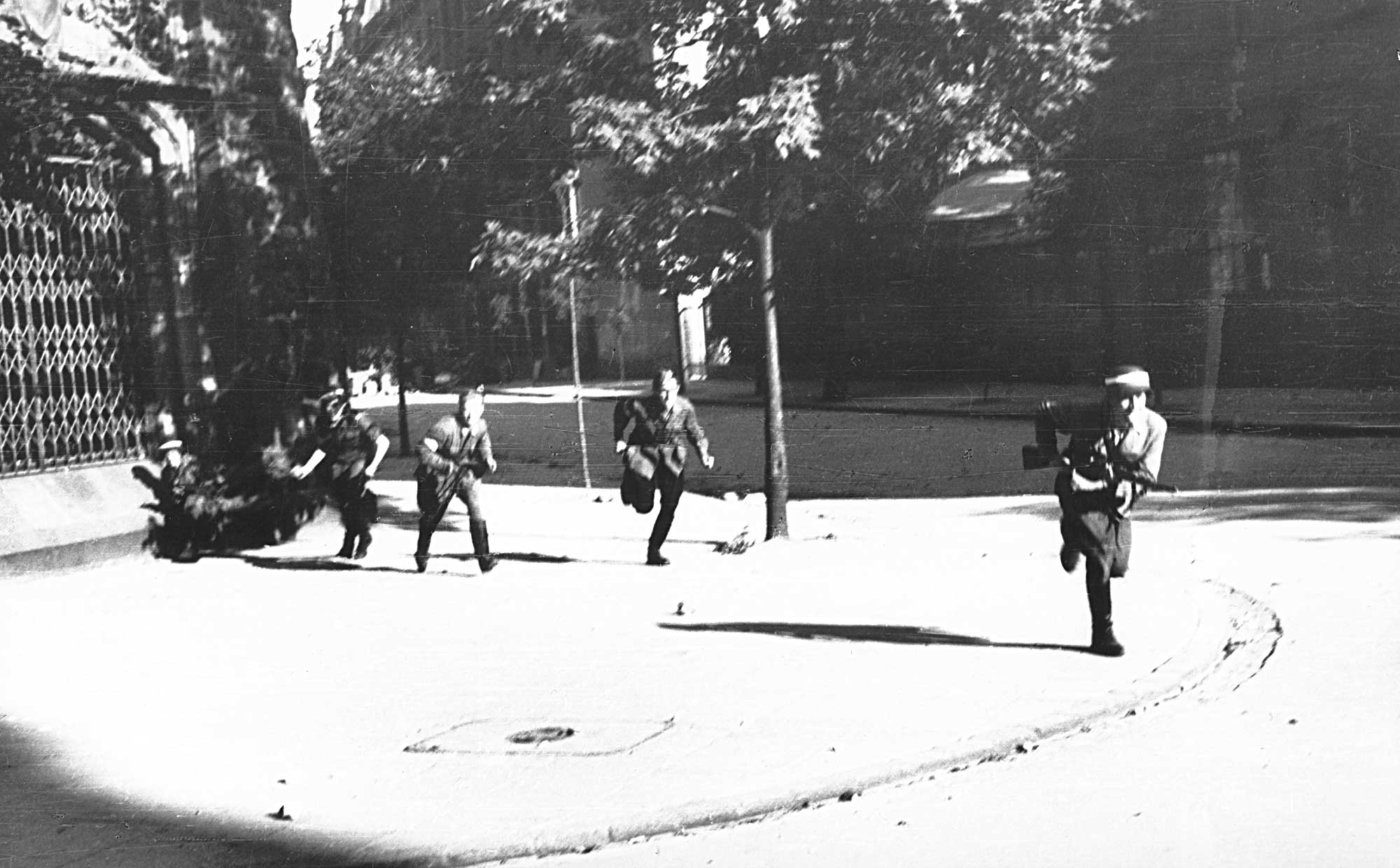 WarsawUprising: Attack on "Esplanada" on the corner of Sienkiewicz and Marszałkowska streets, by soldiers of "Koszta" Company on August 3, 1944.